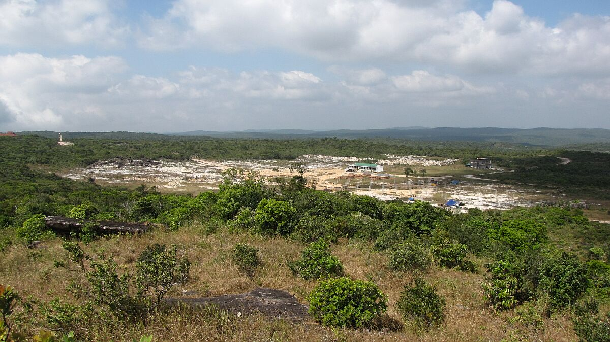 Construction site on top of Phnom Bokor (Bokor Hill Station)